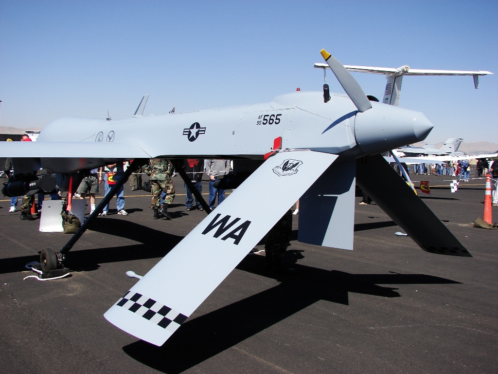 Rear view of a Predator (Reno Air Show). Author: Carlos Ponte